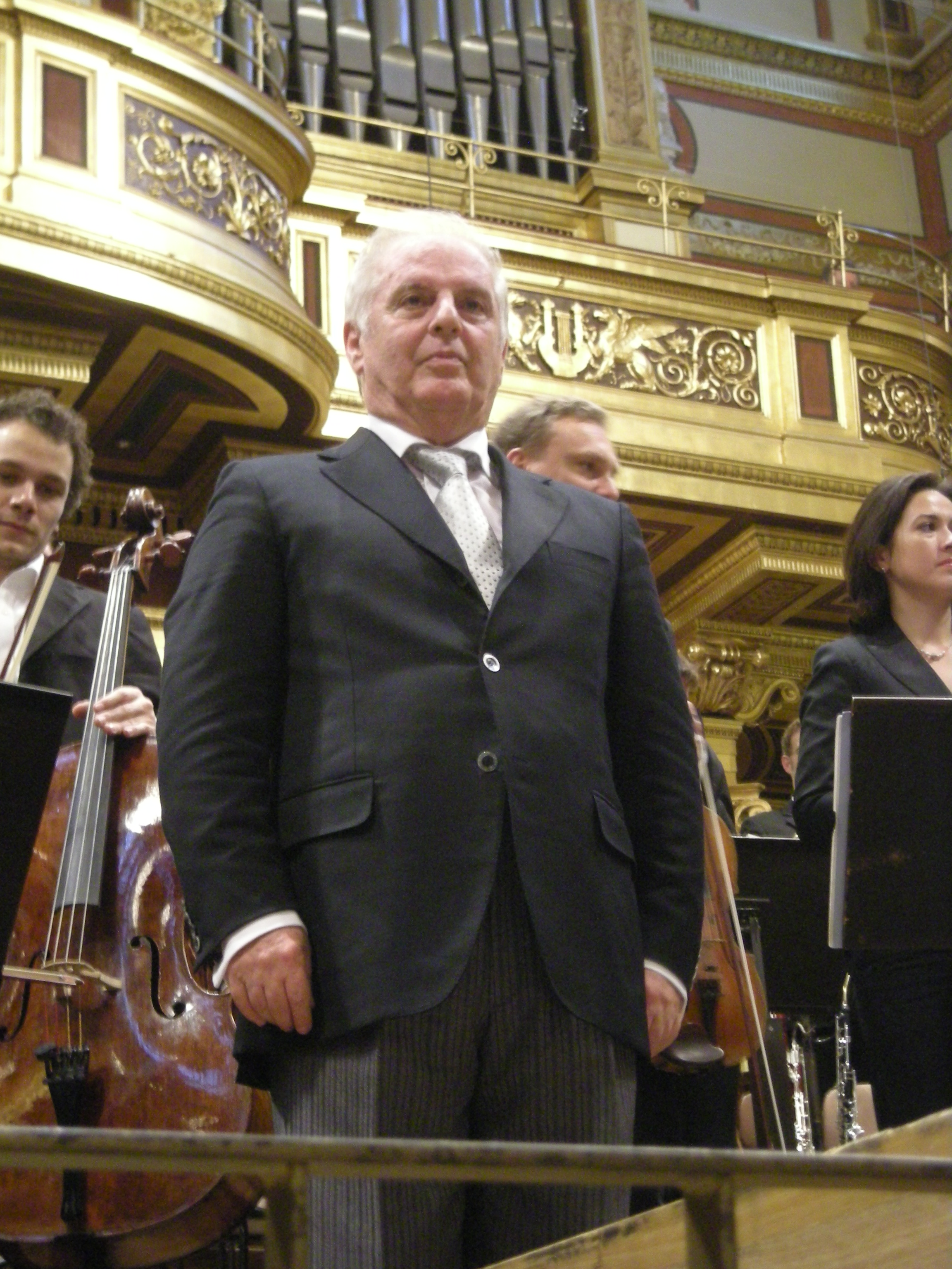 Daniel Barenboim after a performance of Mahler's Fifth Symphony at the Musikverein, Vienna, Austria (November 2, 2008). Taken by the uploader.